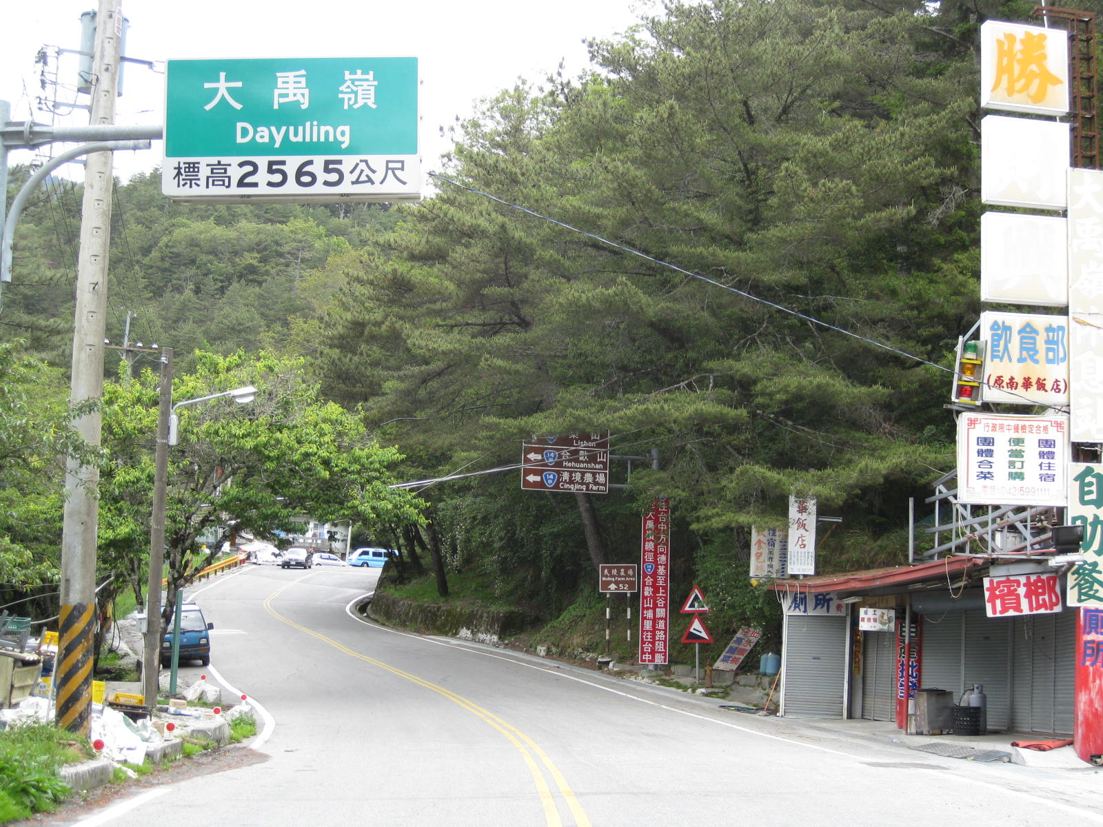 Dayuling is the highest point on the Central Cross-Island Highway,located on the east side of Xiulin Township in Hualien County.